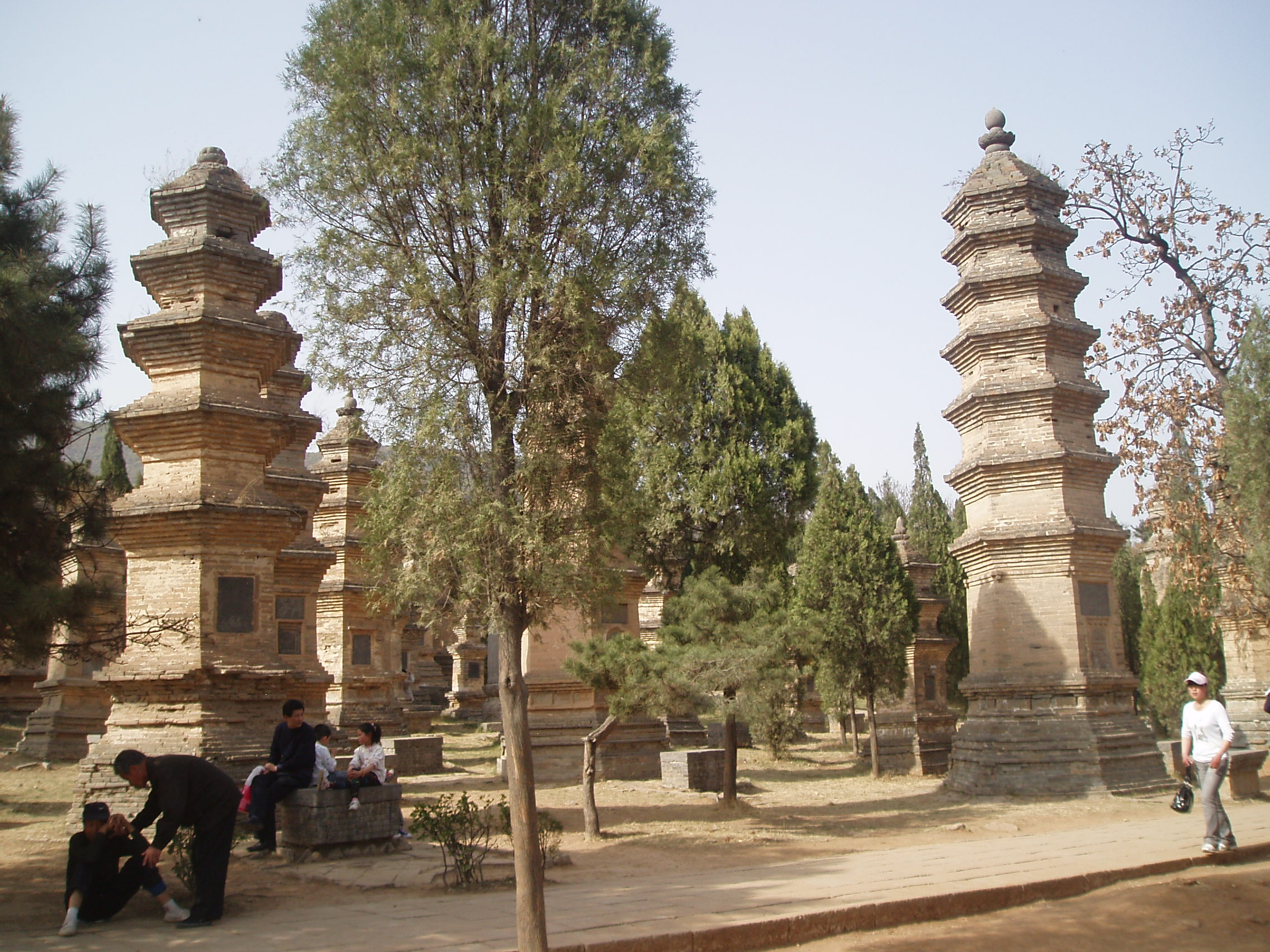 The Pagoda Forest at Shaolin Temple